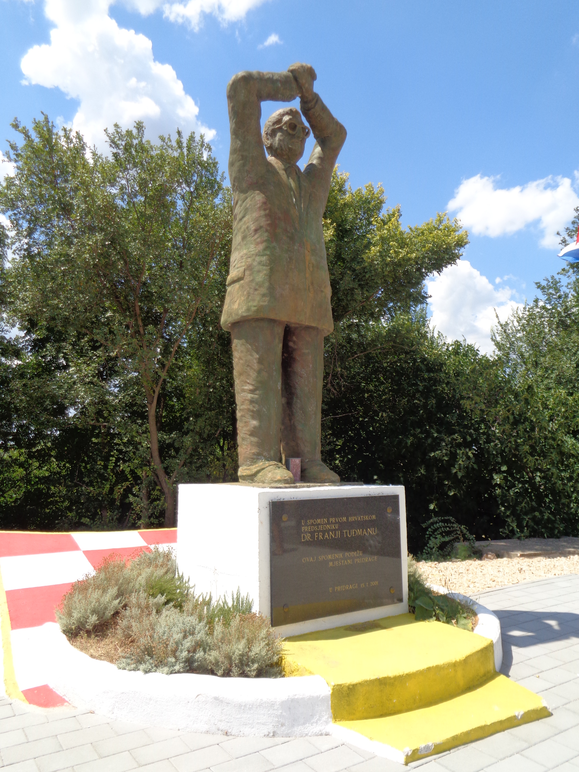 Franjo Tudjman, PhD (1922-1999), First Croatian President - statue in Pridraga, Zadar County, Croatia (southeast view); author: sculptor Ivan Malenica